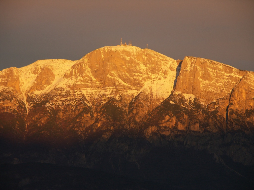 Paganella, a 2.125 meter high mount located in Italy near to the town of Trento. View of the east side of the mountain taken from Povo, at sunrise.